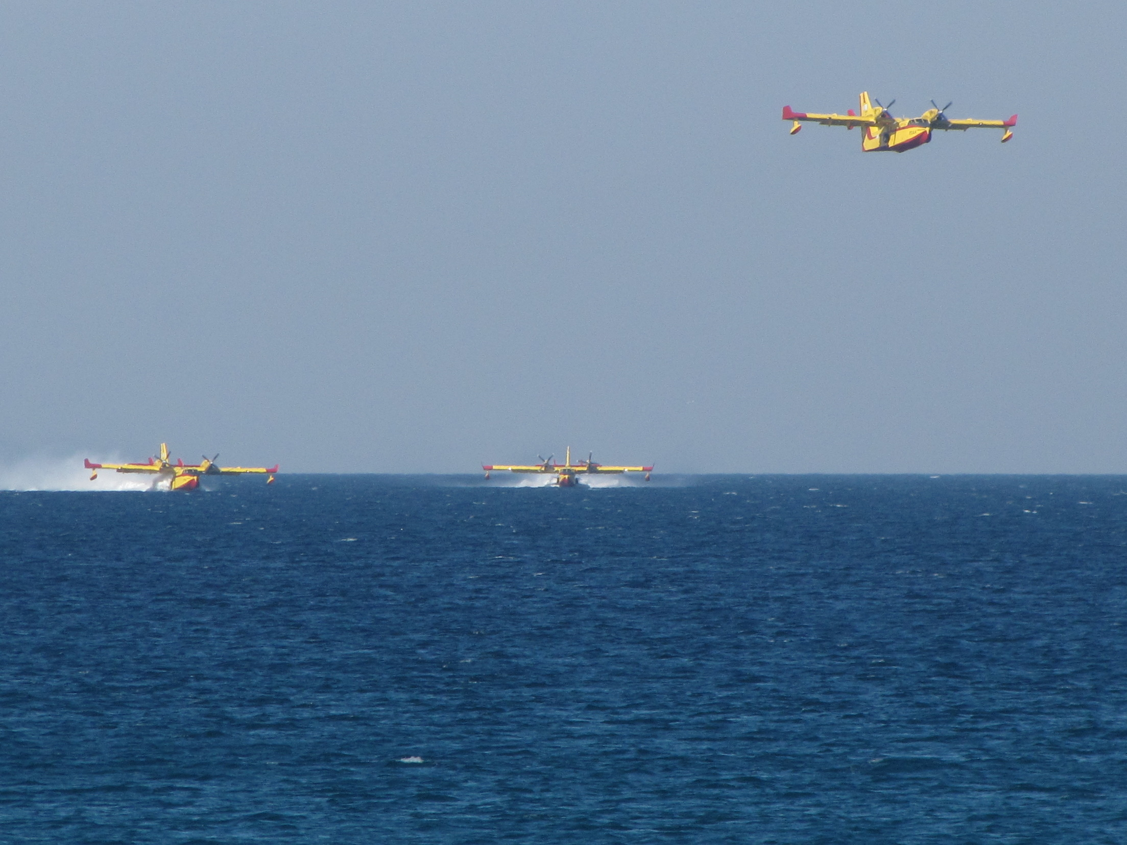 Three Hellenic Air Force Bombardier 415 refilling their water tanks off the coast of Athlit, while in operation fighting the 2010 Mount Carmel forest fire